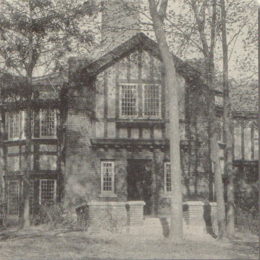 The Downers Grove School (later Junior Elementary School), Downers Grove, Ilinois